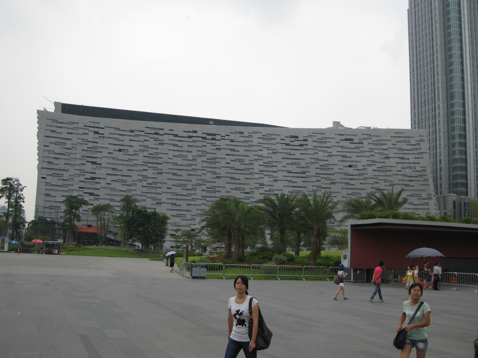 New Guangzhou Library overview